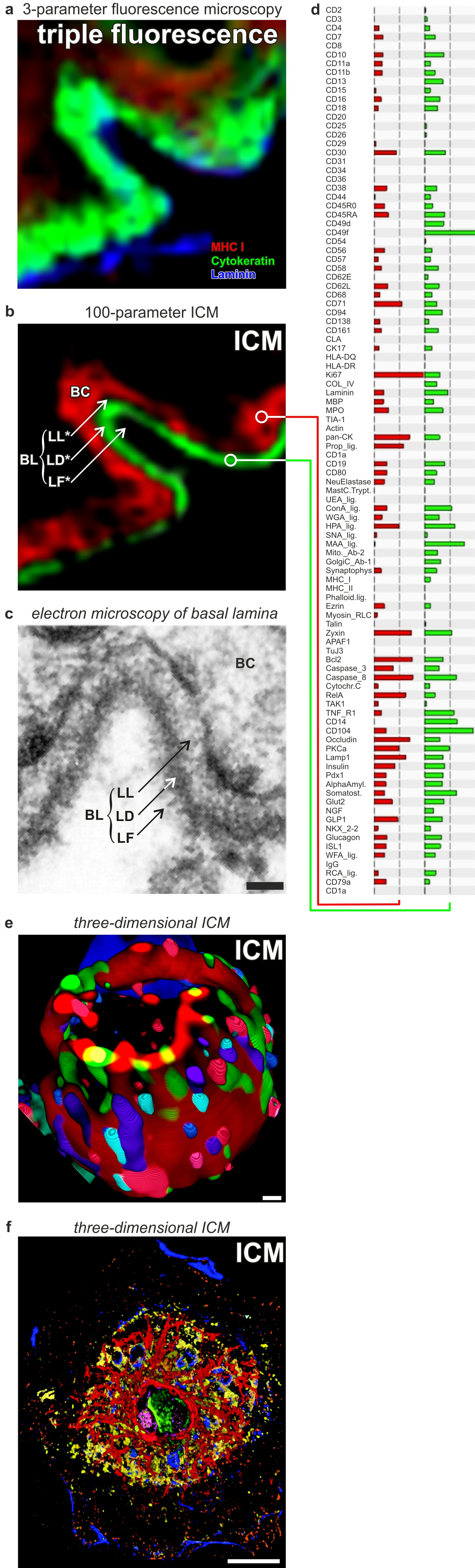 (a) Dermoepithelial junction (human skin tissue section) measured by three-parameter fluorescence microscopy. (b) ICM, same location as in (a) resolves the basal lamina densa (LD) as a giant stoichiometrically controlled supermolecule and discerns the three basal lamina layers (lamina lucida, LL; lamina densa, LD, and lamina fibroreticularis, LF) as indicated by comparison with a transmission electron micrograph (c). (d) Profiles of 100 distinct biomolecules co-mapped by ICM. (e) Three-dimensional network of supermolecules (different colours, measured by ICM) on the cell surface of a single human blood T-lymphocyte[1][2]. (f) More than 7,000 different protein clusters in a human liver cell measured by ICM[3]. Scale bars: 10 µm (a,b); 50 nm (c); 1 µm (e); 10µm (f).